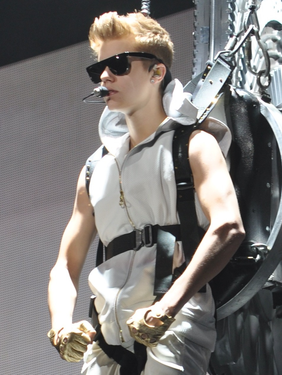 Justin Bieber performing Believe Tour in October 20, 2012.